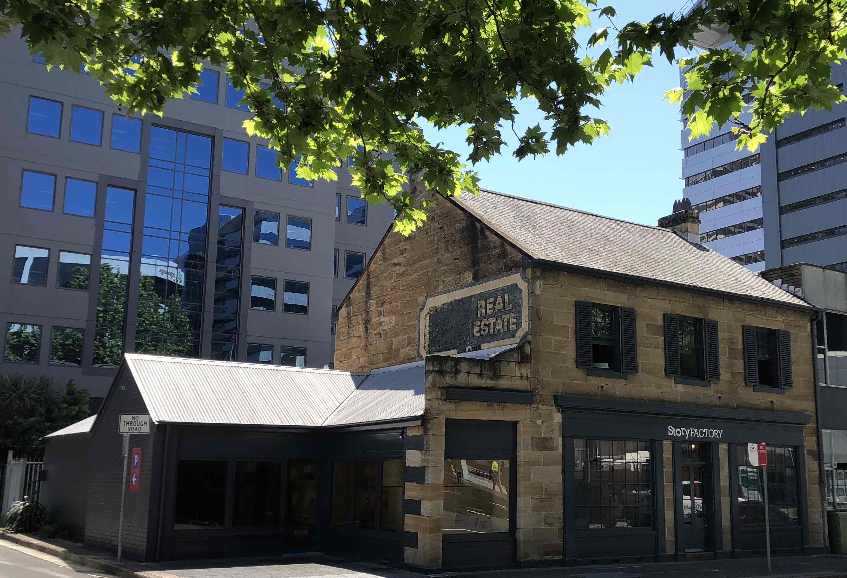 Exterior of Parramatta location of Story Factory.